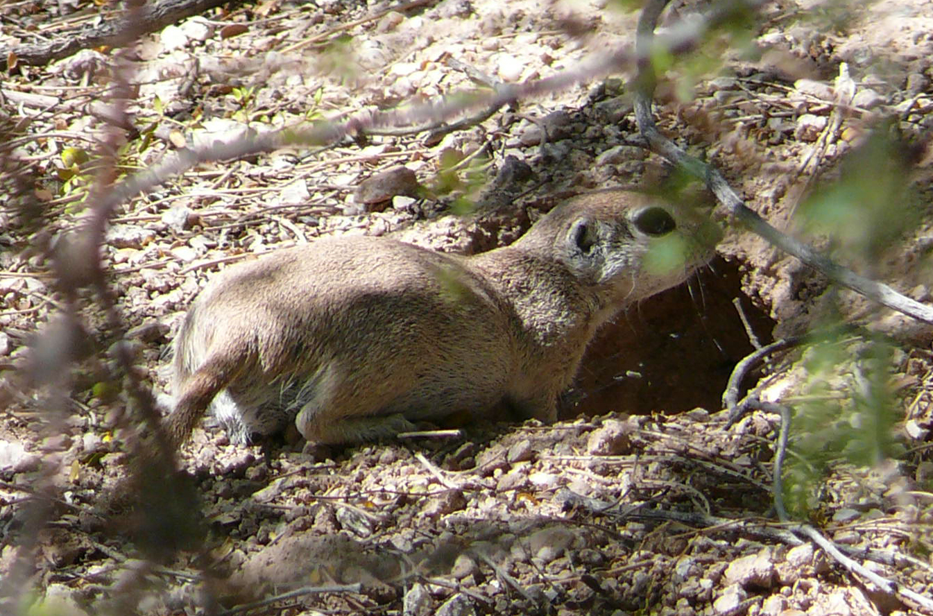 Round-tailed Ground Squirrel (Spermophilus tereticaudus). Photo taken in Tucson, Arizona.